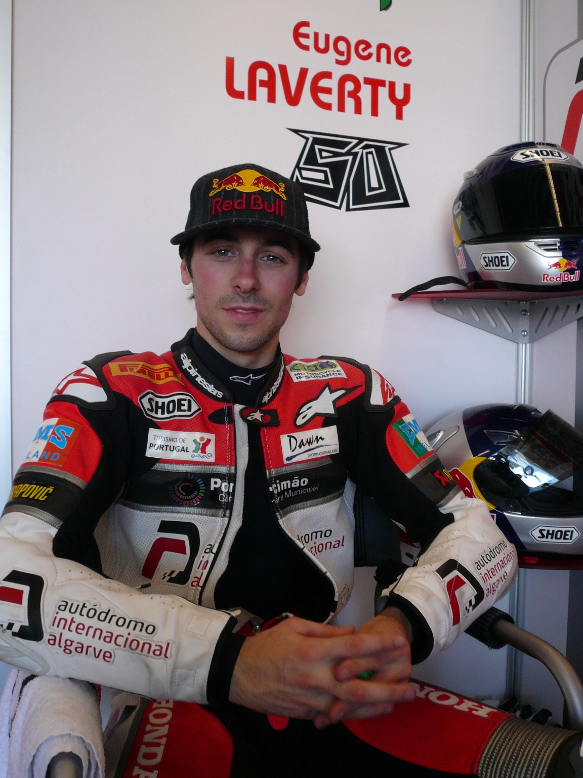 Eugene Laverty, Miller Motorsports Park, World Supersport Race, Parkalgar Honda, 2010